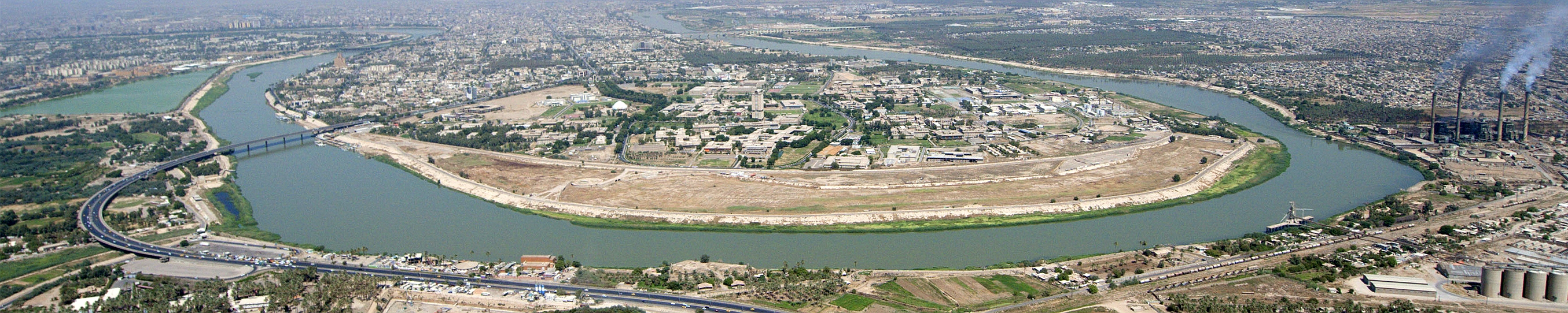 An aerial view of the Tigris River as it flows through Baghdad, July 31st, 2016. (DoD Photo by Navy Petty Officer 2nd Class Dominique A. Pineiro)